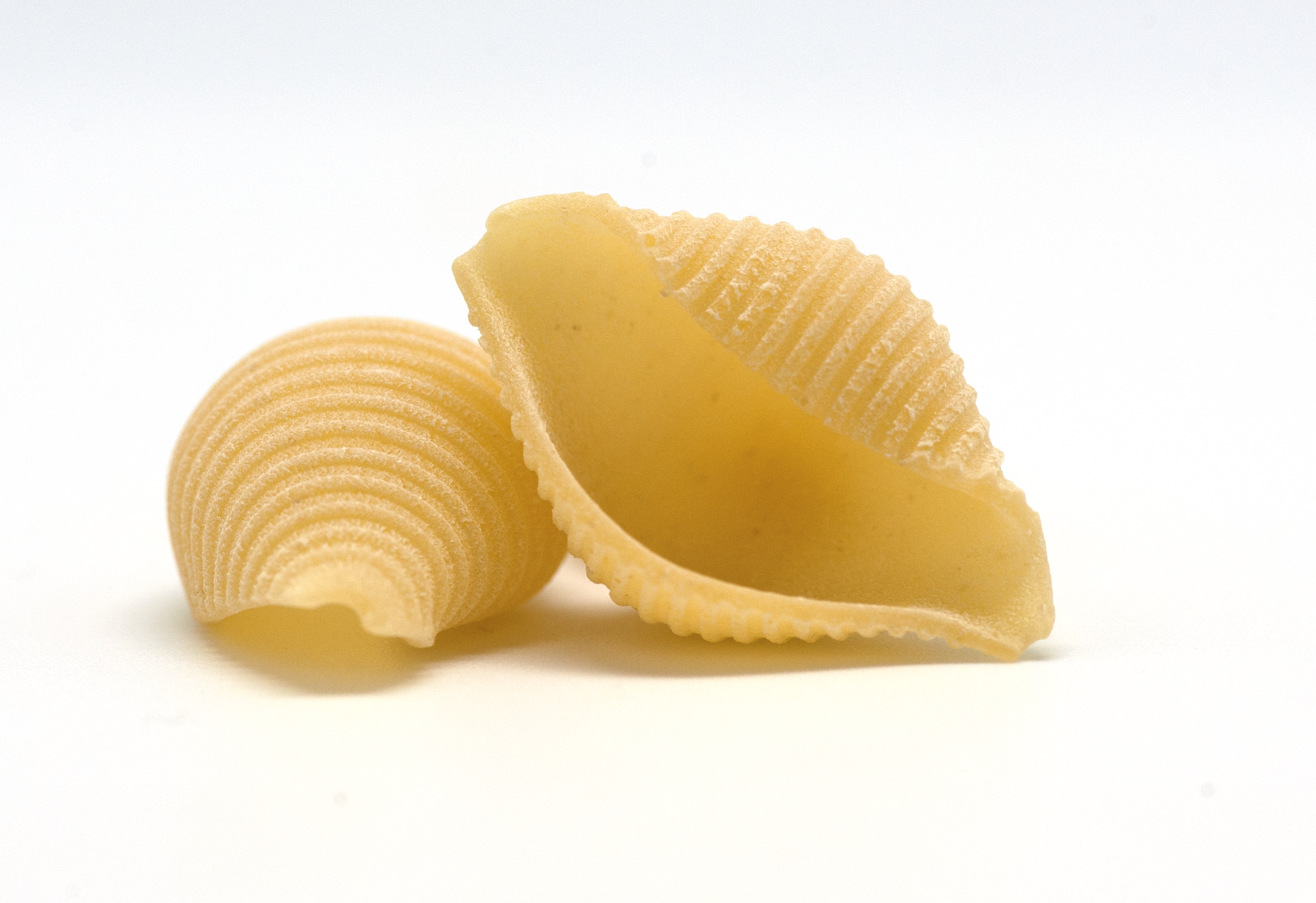 Conchiglie rigate. A type of extruded pasta. These are De Cecco n°50